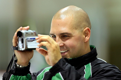 Erik Granqvist Goalie- & videocoach